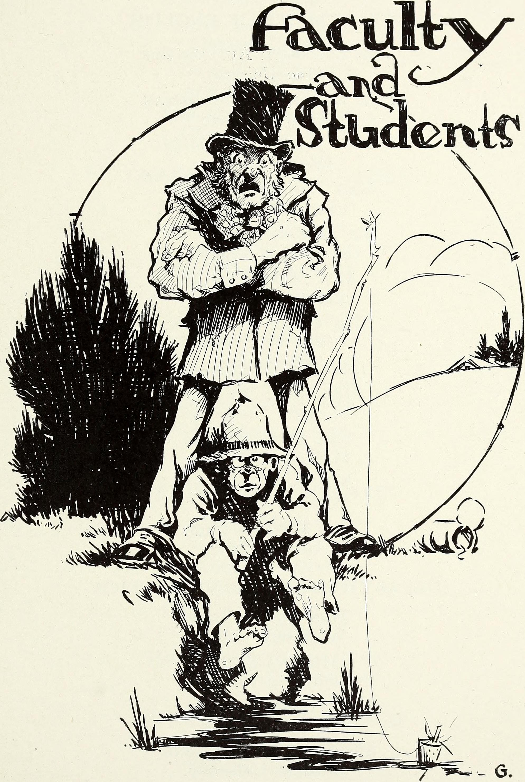 Title: The Scottonian Year: 1921 (1920s) Authors: Scott High School (Toledo, Ohio) Subjects: Scott High School (Toledo, Ohio) High schools School yearbooks Publisher: Toledo, Ohio : Scott High School Text Appearing Before Image: 10 Text Appearing After Image: 11